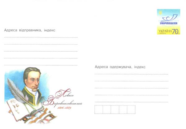 Ukraine 2006 envelope with the Portrait of Levko Borovikovsky